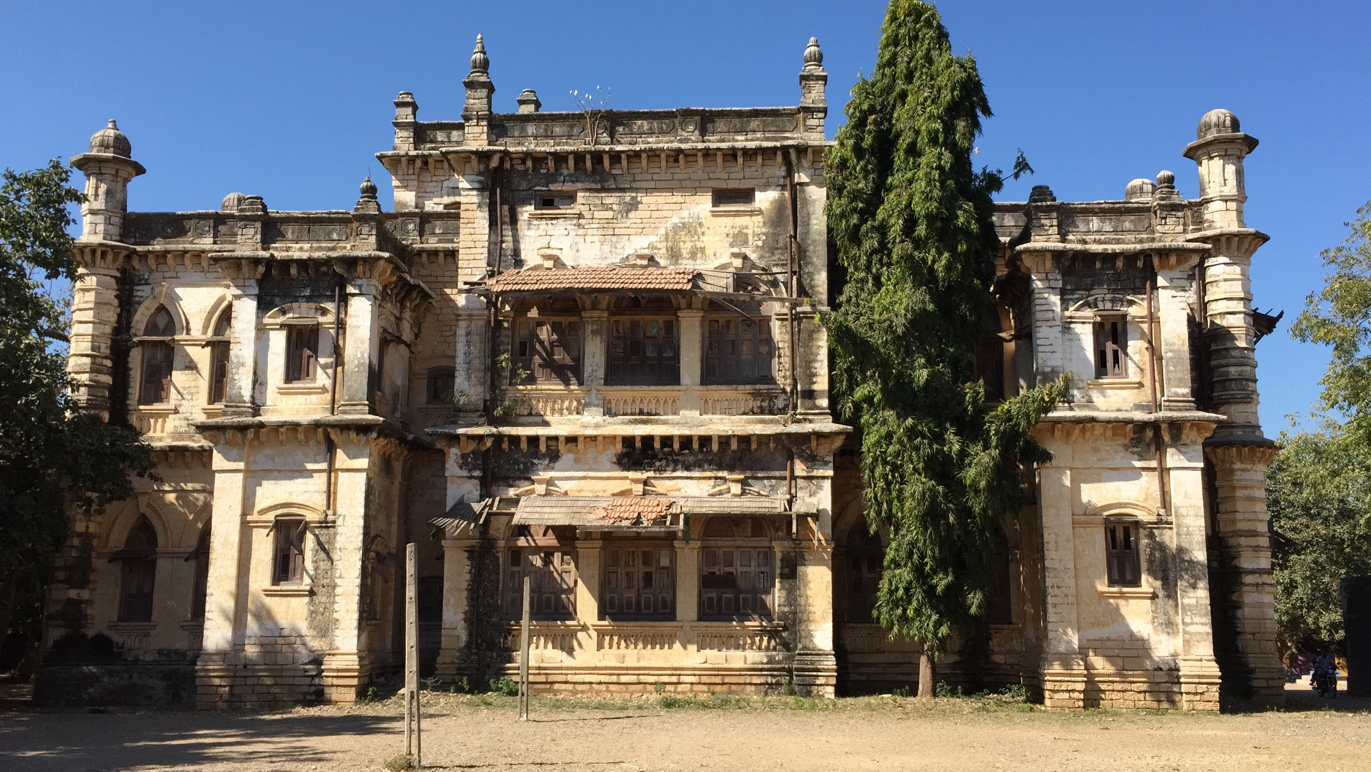 Nawabs Bunglow